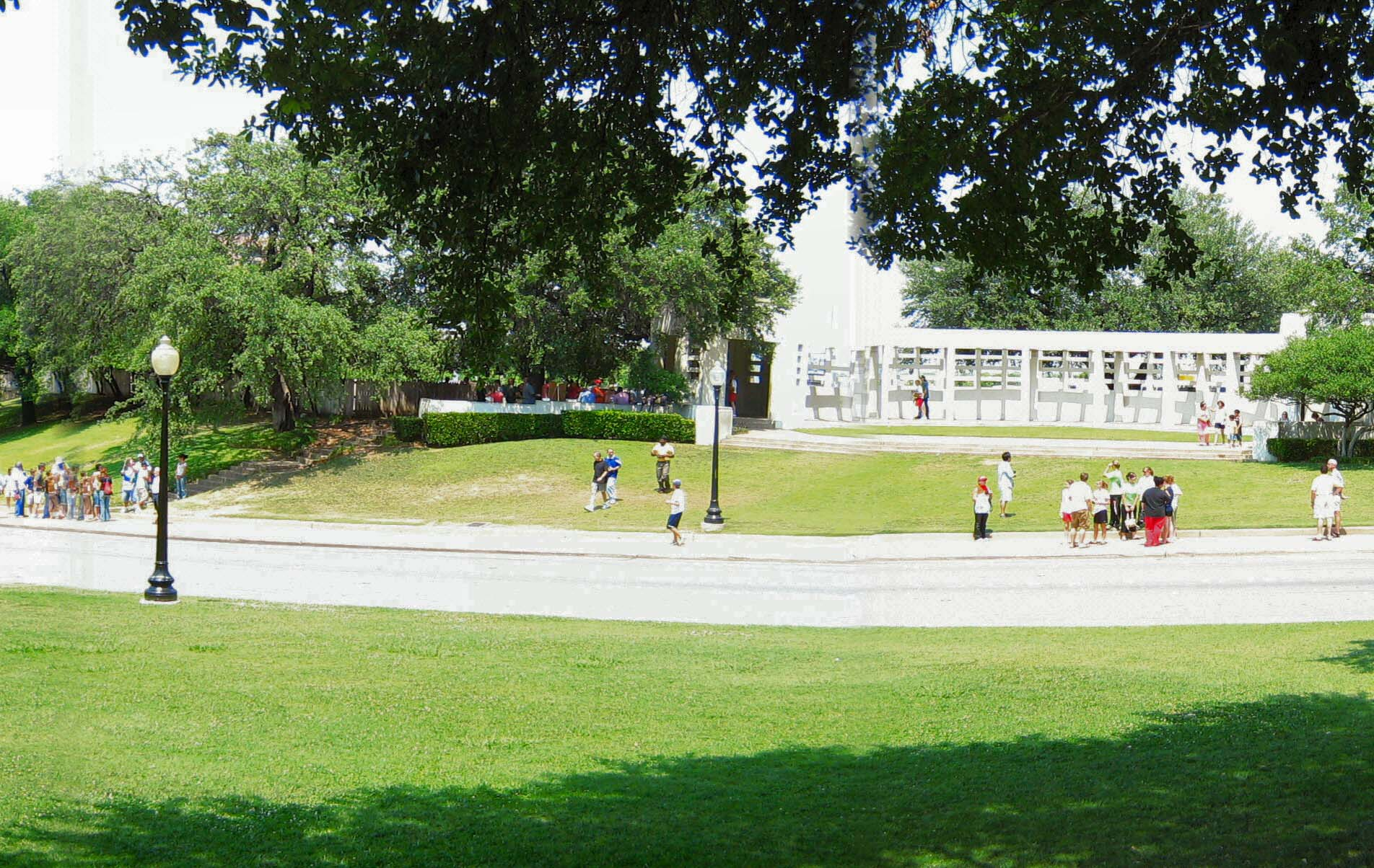 Main and Elm Streets of Dallas, Texas as of June 10th, 2006 (Elm is at the right). The white concrete pergola where Abraham Zapruder filmed the assassination is at the far right of the scene, with the Grassy Knoll to the left of it. JFK was struck by the final bullet at a position just to the photo-left of the lamp-post in front of the pergola. The "triple underpass" is in the photo center. Original picture taken by Nathan Stringer. Imported in Commons from Cropped to show datail of the pergola and the place of the assassination. Original version is at Image:Dallas Elm Street.jpg.